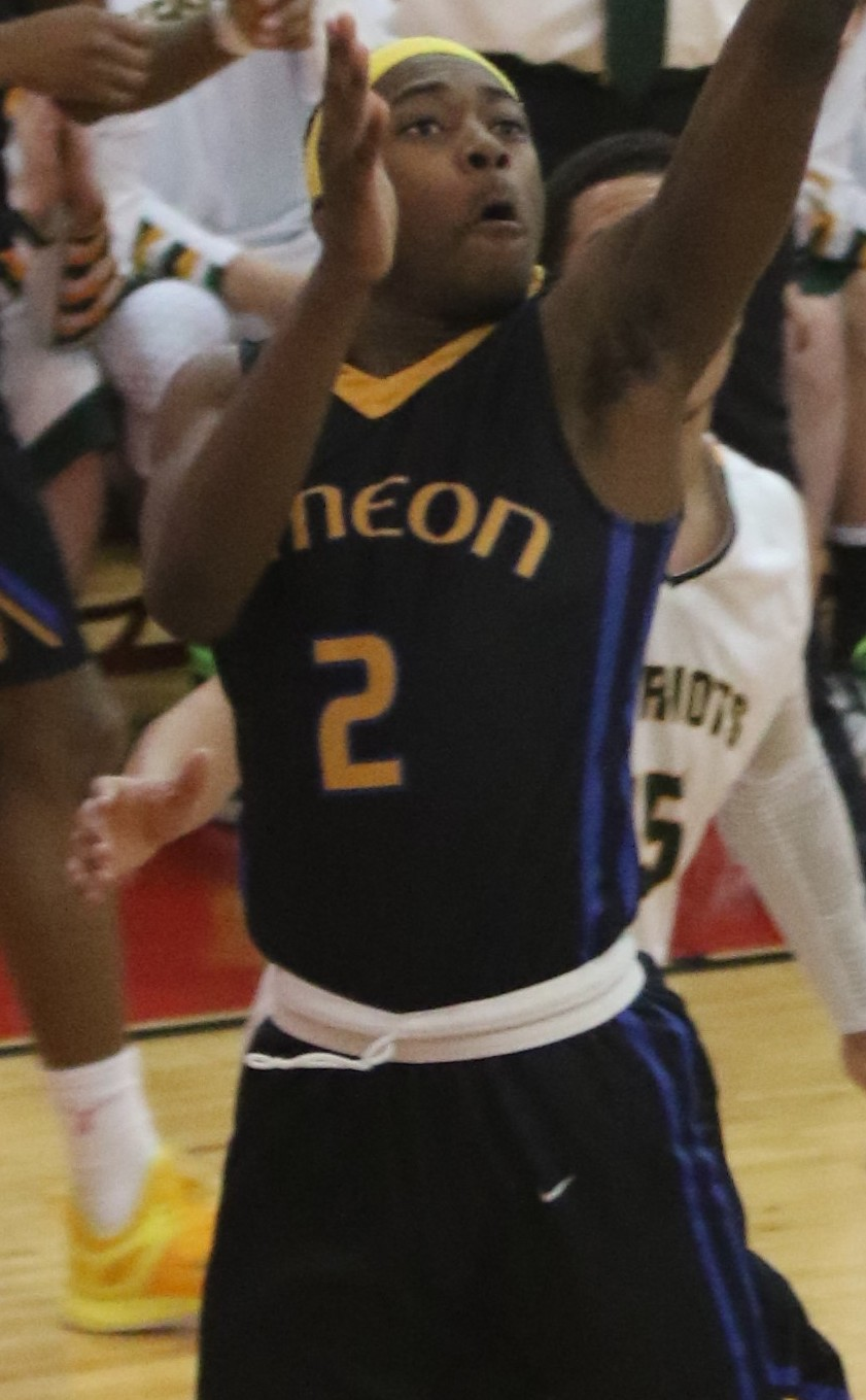 Justin Smith of Stevenson pins Kezo Brown of Simeon